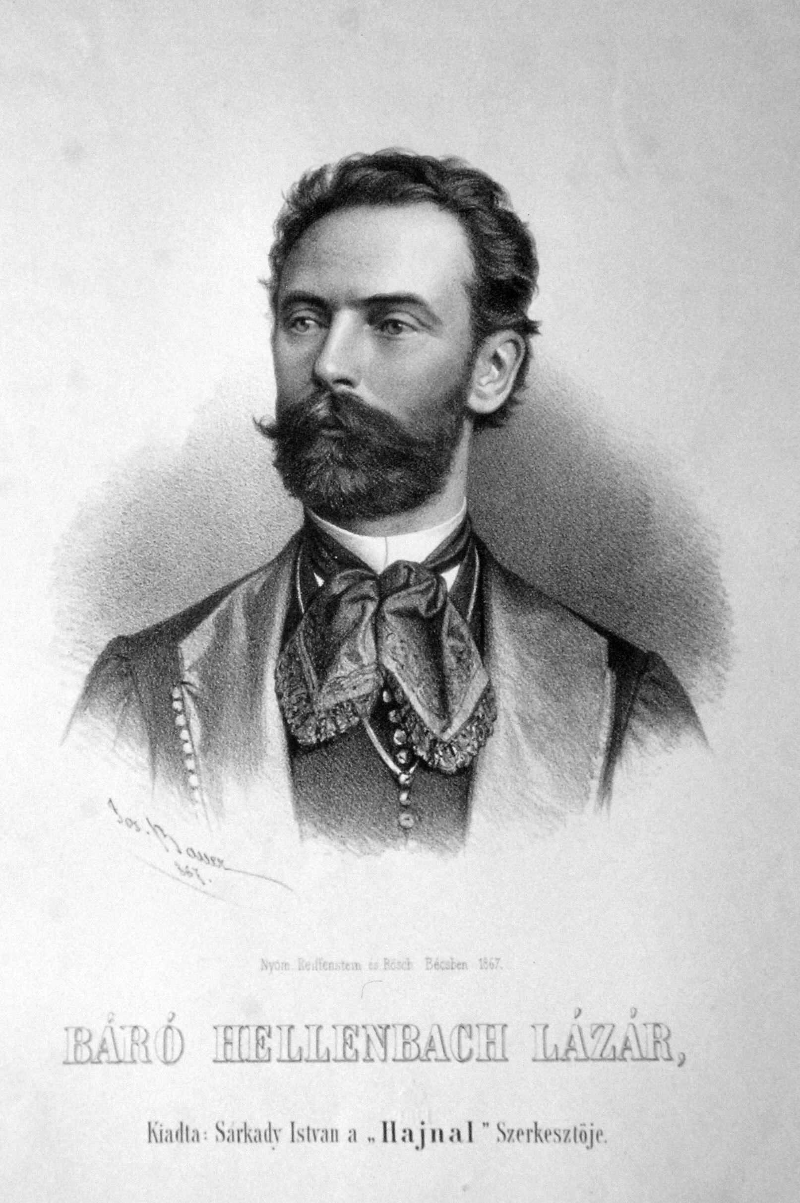 Lazar von Hellenbach (1827-1887), Austrian Philosopher, Writer Lithograph by Josef Anton Bauer, 1867